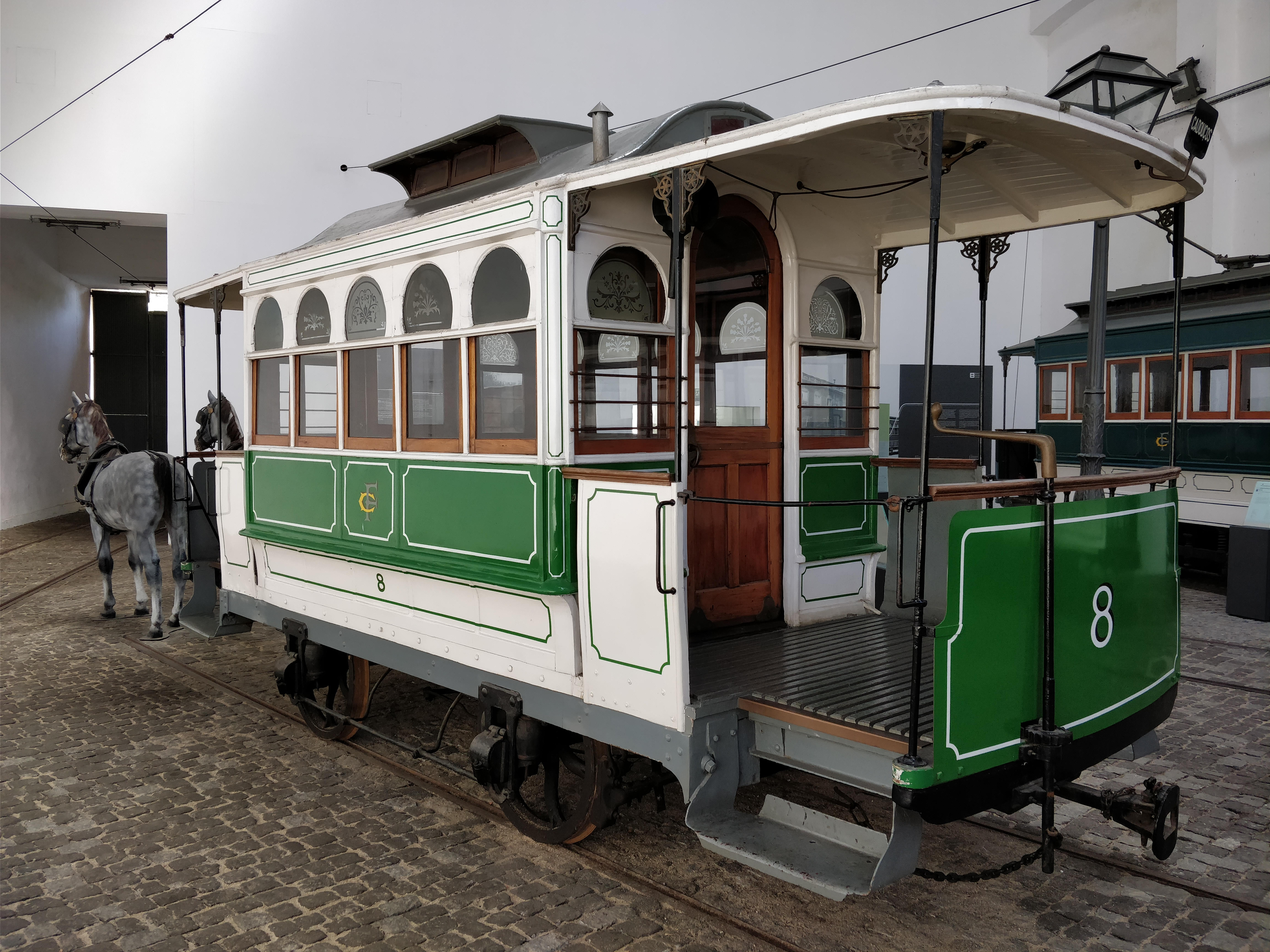 Animal traction cart first used in Porto on May 15, 1872. It also served as a trailer for steam and electric engines.